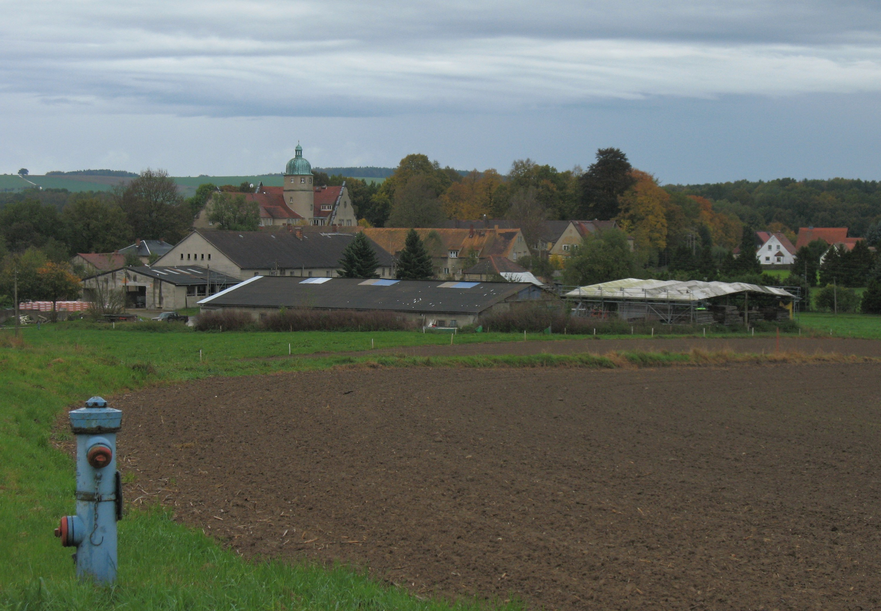 Stolpen-Helmsdorf in Saxony, Germany